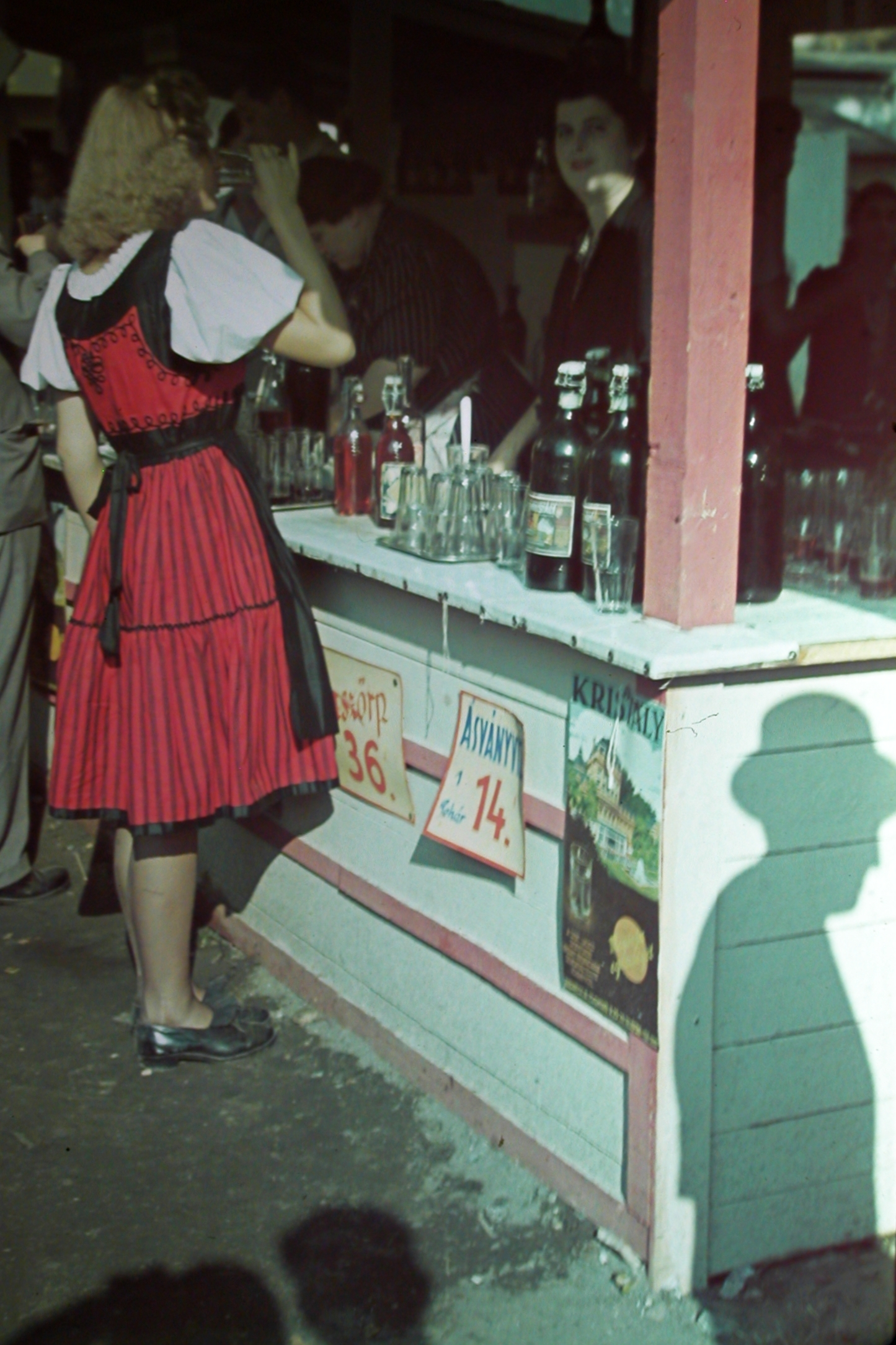 Location: Hungary, City Park, Budapest XIV. Tags: colorful, international fair, buffet, ad, shadow, Budapest